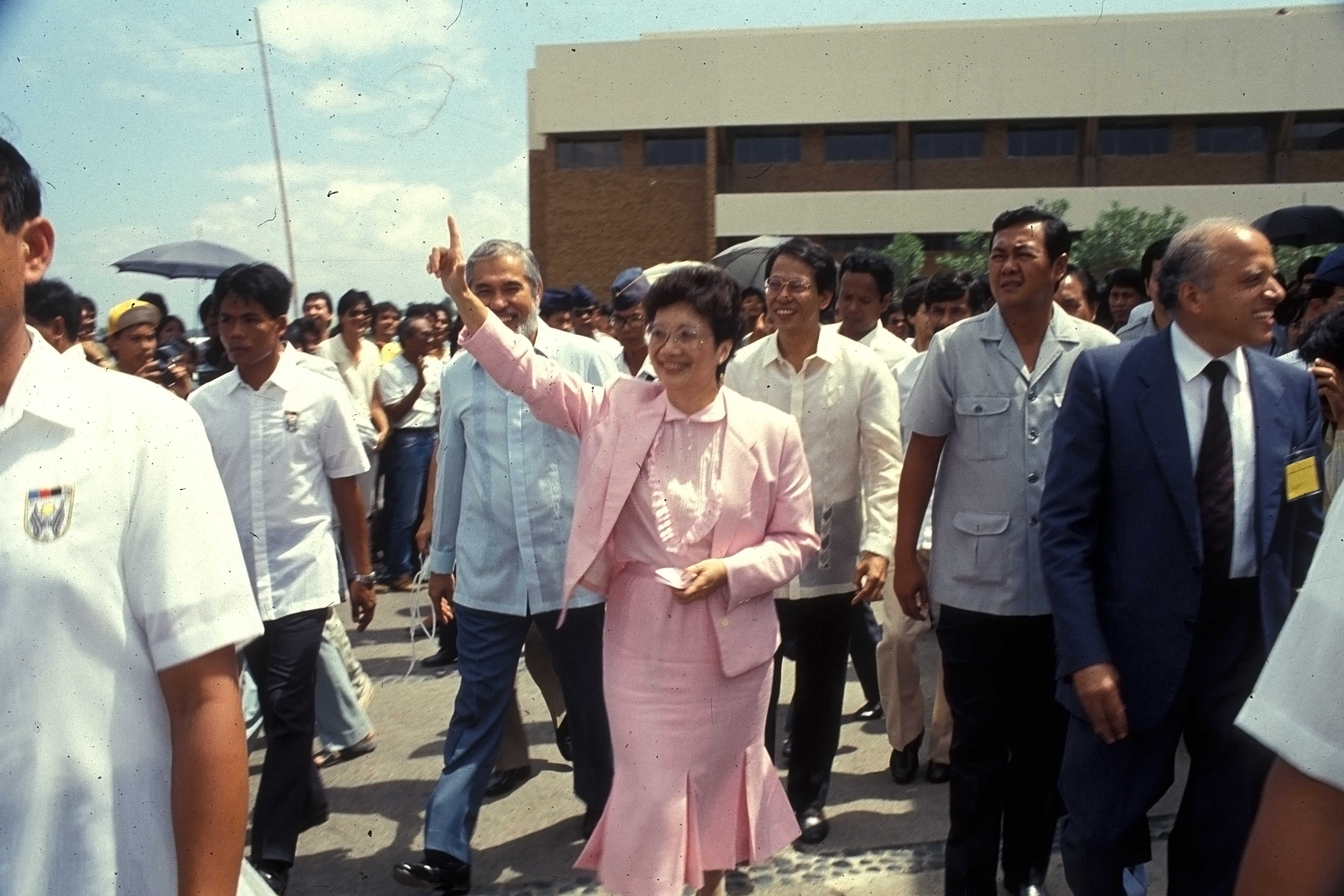 Philippine President Corazon Aquino visits IRRI in 1986. Part of the image collection of the International Rice Research Institute (IRRI).